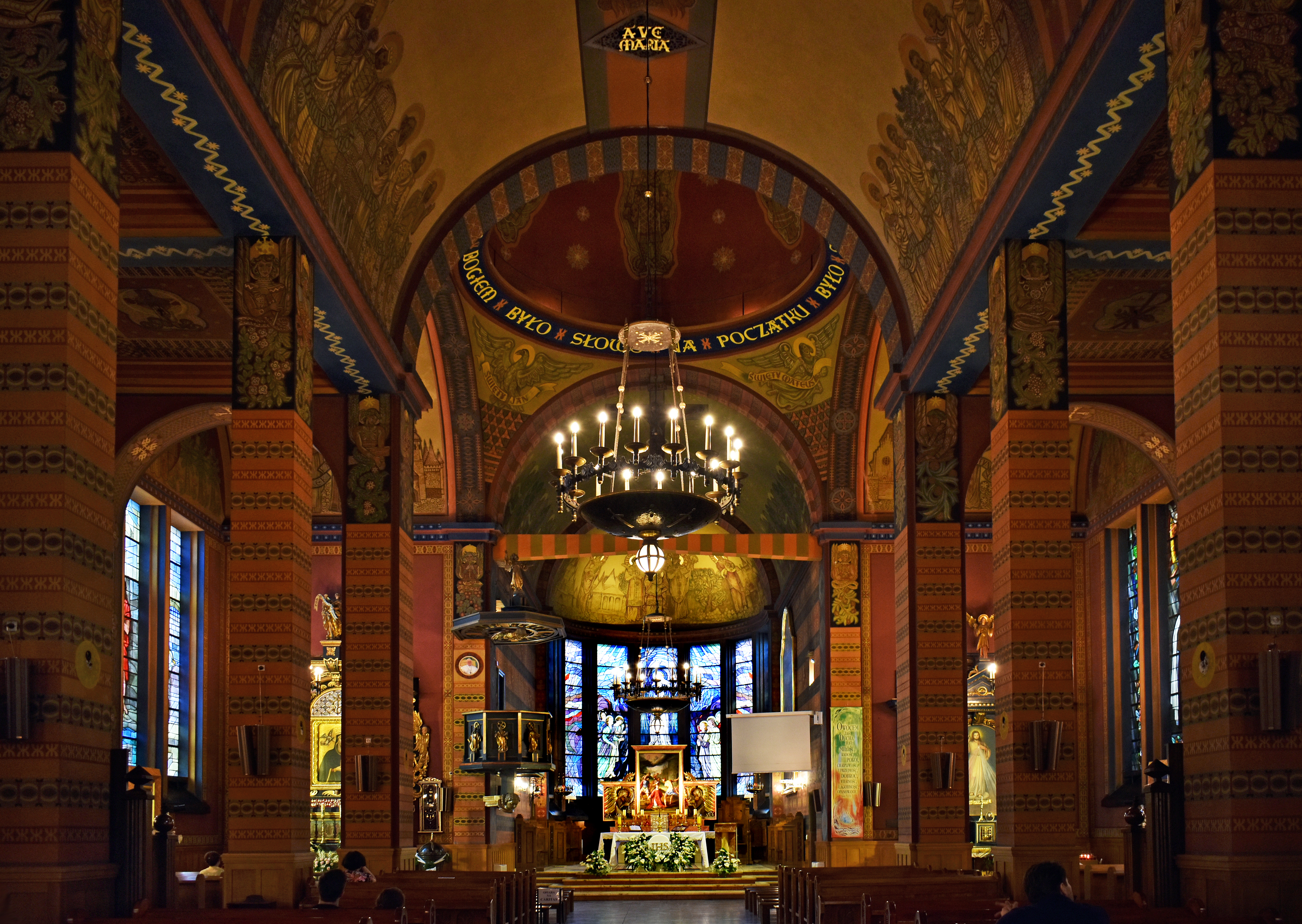 St Stephen Church (interior), 19 Sienkiewicza street, Krakow, Poland